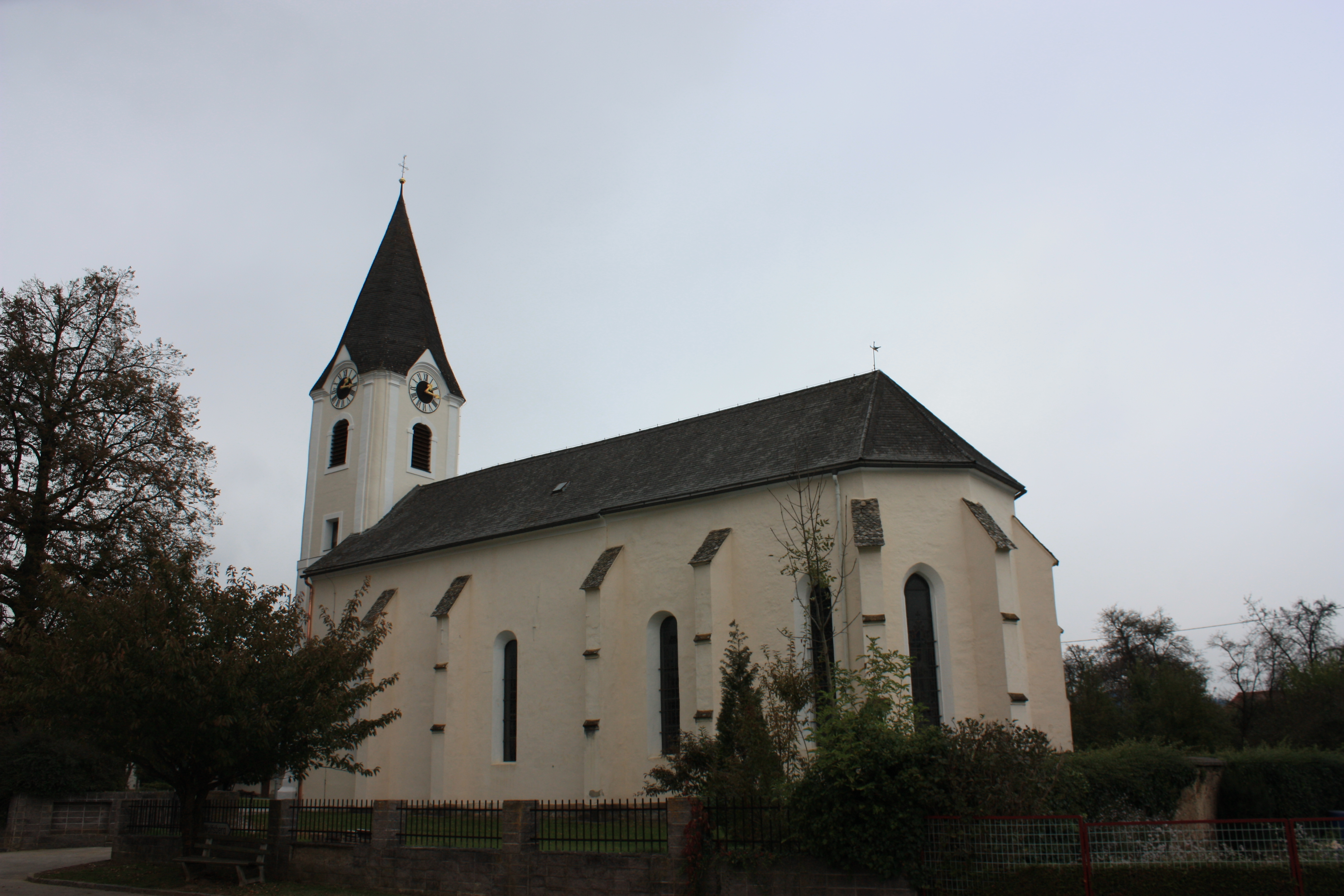 Parish church Saint Michael Locality: Sankt Michael im Lavanttal Community:Wolfsberg